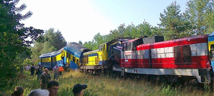 The collision of two SU42 in Korzybie between Miastko and Słupsk.